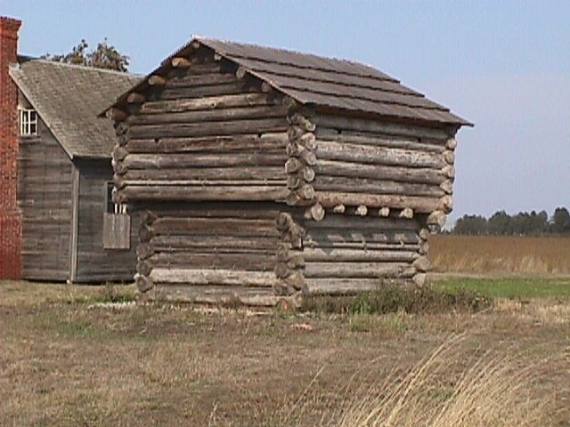 The Jacob Ebey Blockhouse in Ebey's Landing National Historical Reserve —located on Whidbey Island in the Puget Sound, Island County, Washington state. The historic district and reserve are on the National Register of Historic Places in Island County.